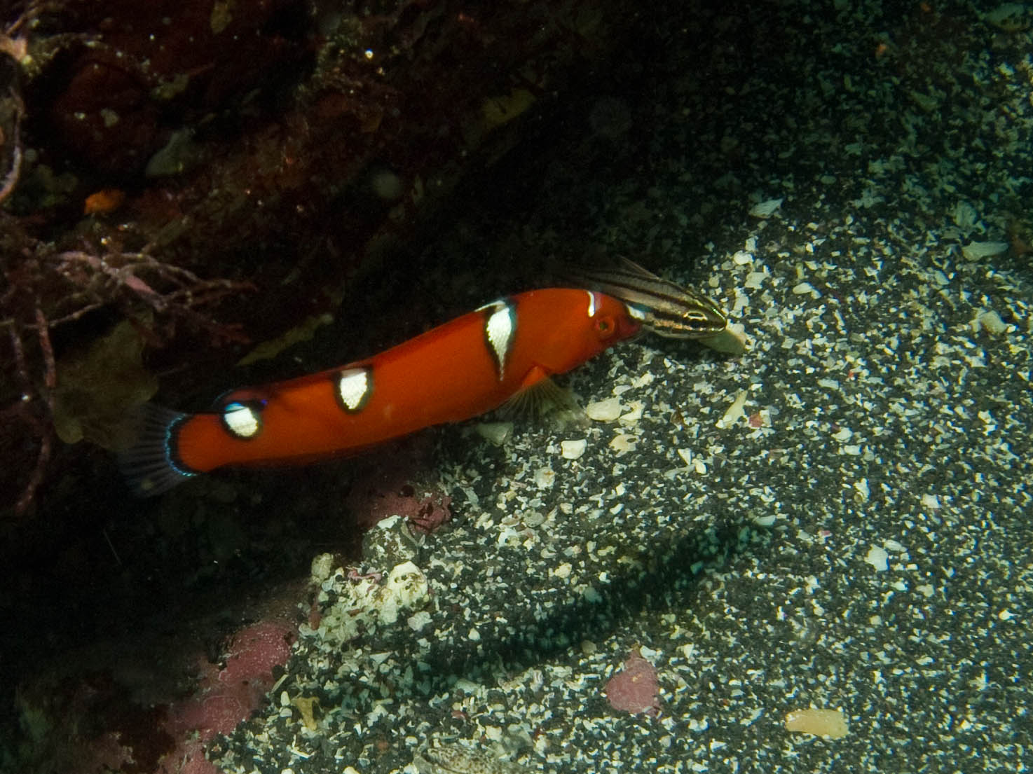 Coris gaimard juvenil en Ito-shi, Japón